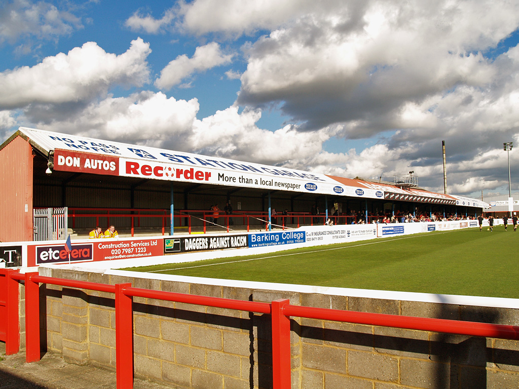 The North Stand at the London Borough of Barking and Dagenham Stadium, home of Dagenham & Redbridge FC. Saturday18th October 2008